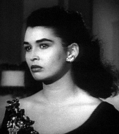 Cropped screenshot of Laurette Luez from the film D.O.A. (1950).